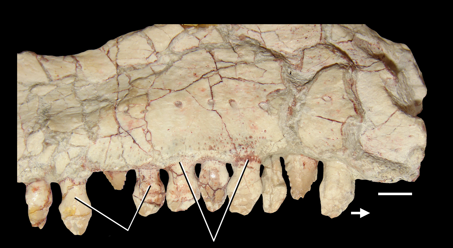 Closeup of the maxilla and implanted teeth of Azendohsaurus madagaskarensis in lateral (labial) view, specimen UA 8-29-97-160. Scale bar equals 5 mm, arrow indicates anterior direction. Modified from Ezcurra (2016).